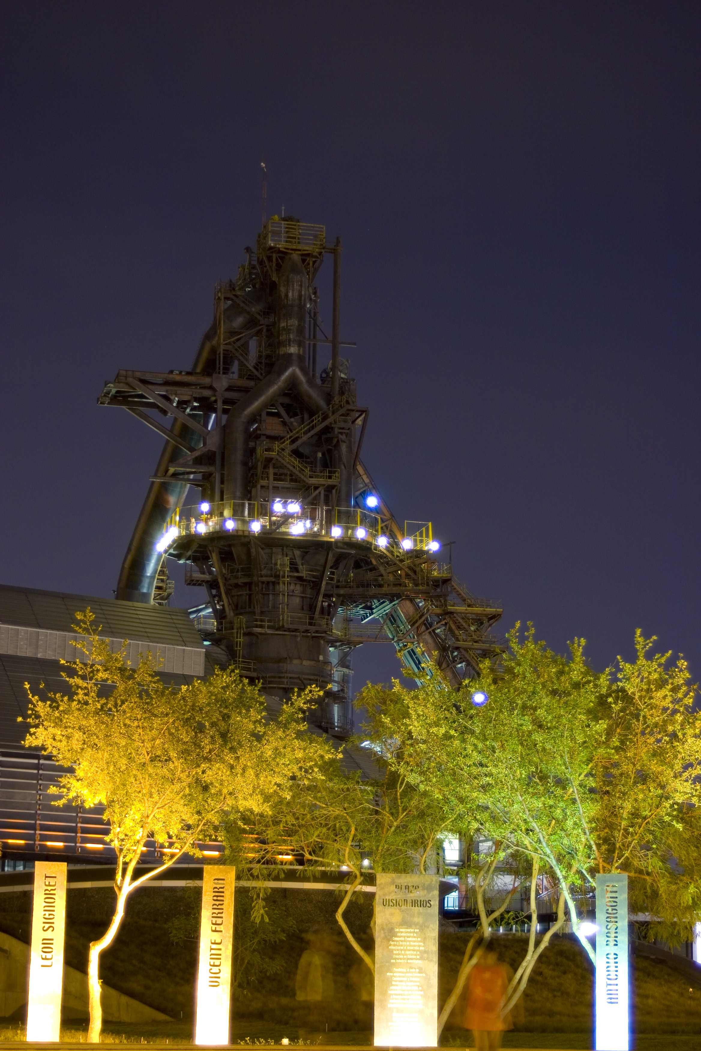 A former blast furnace of the Fundidora de Acero de Monterrey steel mill, near Monterrey, México. Present day location of Parque Fundidora, a public park preserving the sculptural mill ruins.